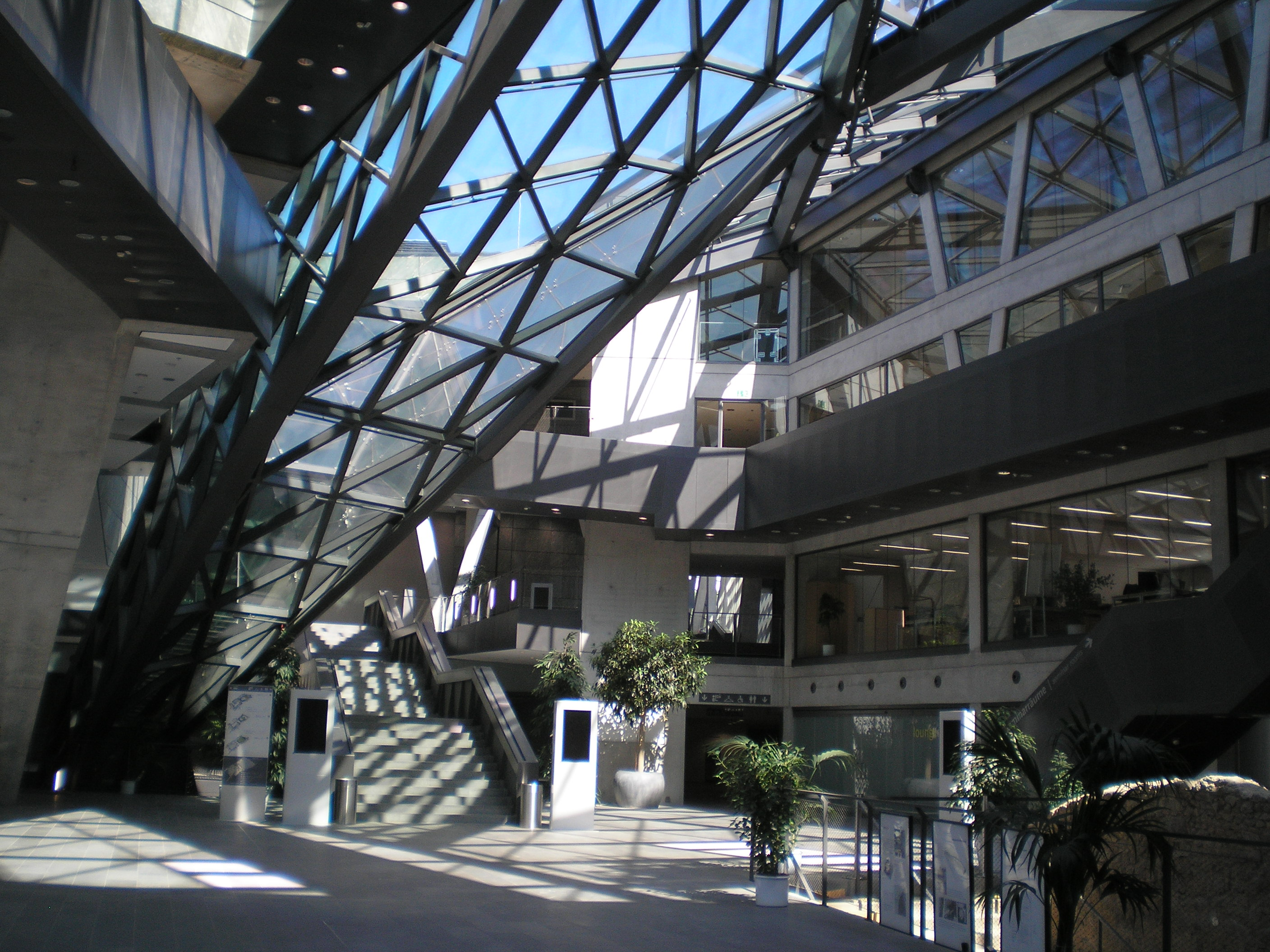 Entrance Hall in Darmstadtium, in Darmstadt, Hessen, Germany.